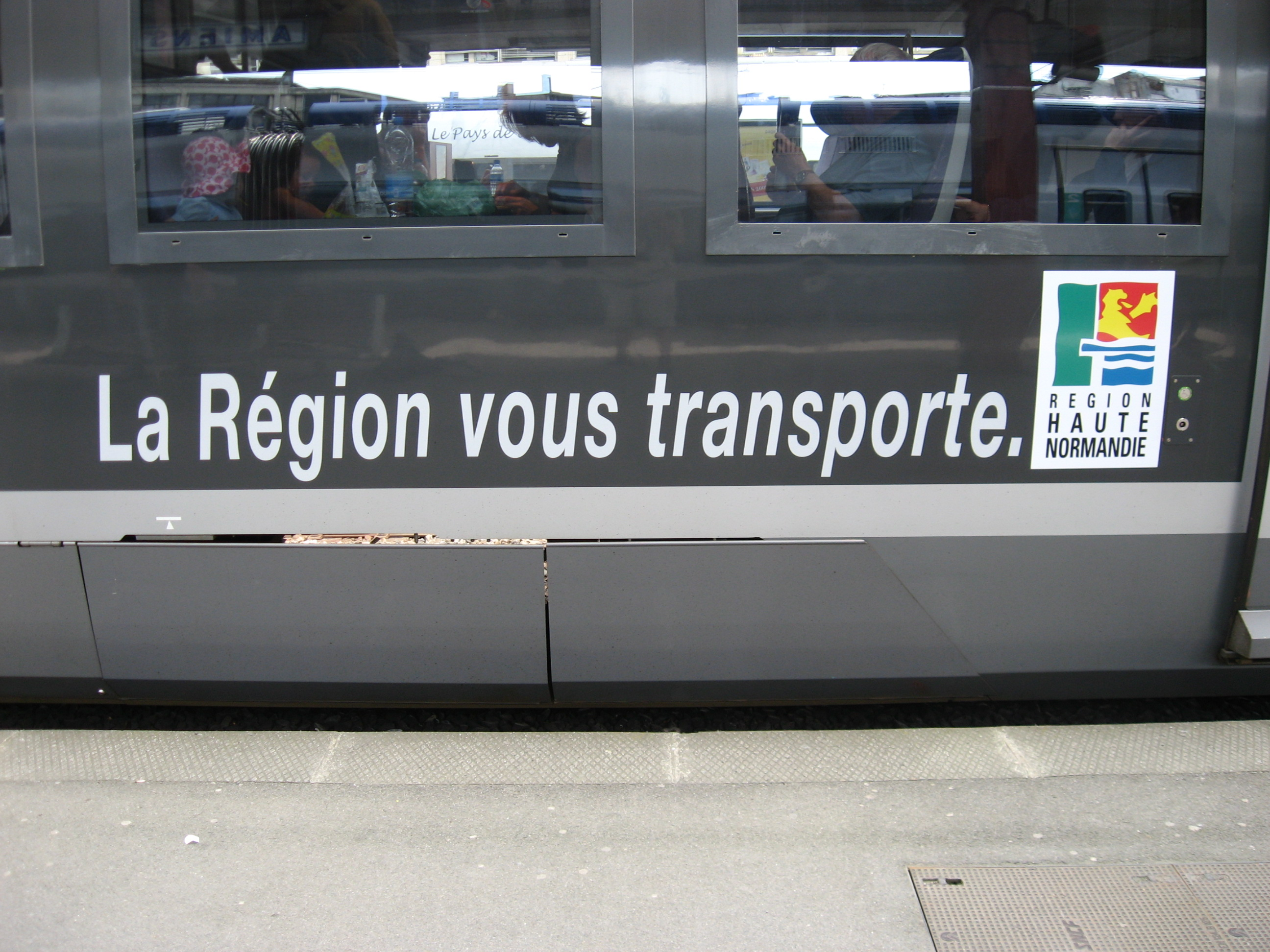 TER logo Haute-Normandie with the text "The region transports you" on the regional train. Foto taken in Rouen.